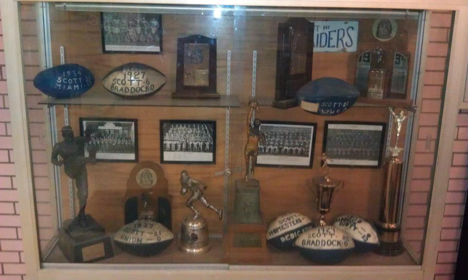 North Braddock Scott High School football accomplishments are on display inside the North Braddock Municipal Building.